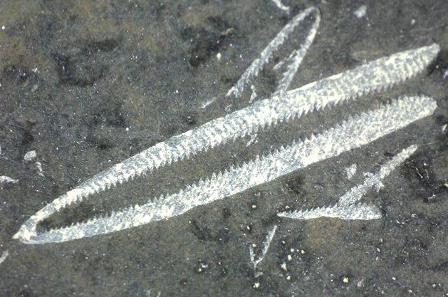 The foto shows a fossil of Didymograptus murchisoni, a graptolite from the Ordovician epoch.